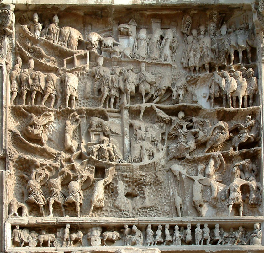 War pannel, Septimius Severus' arch